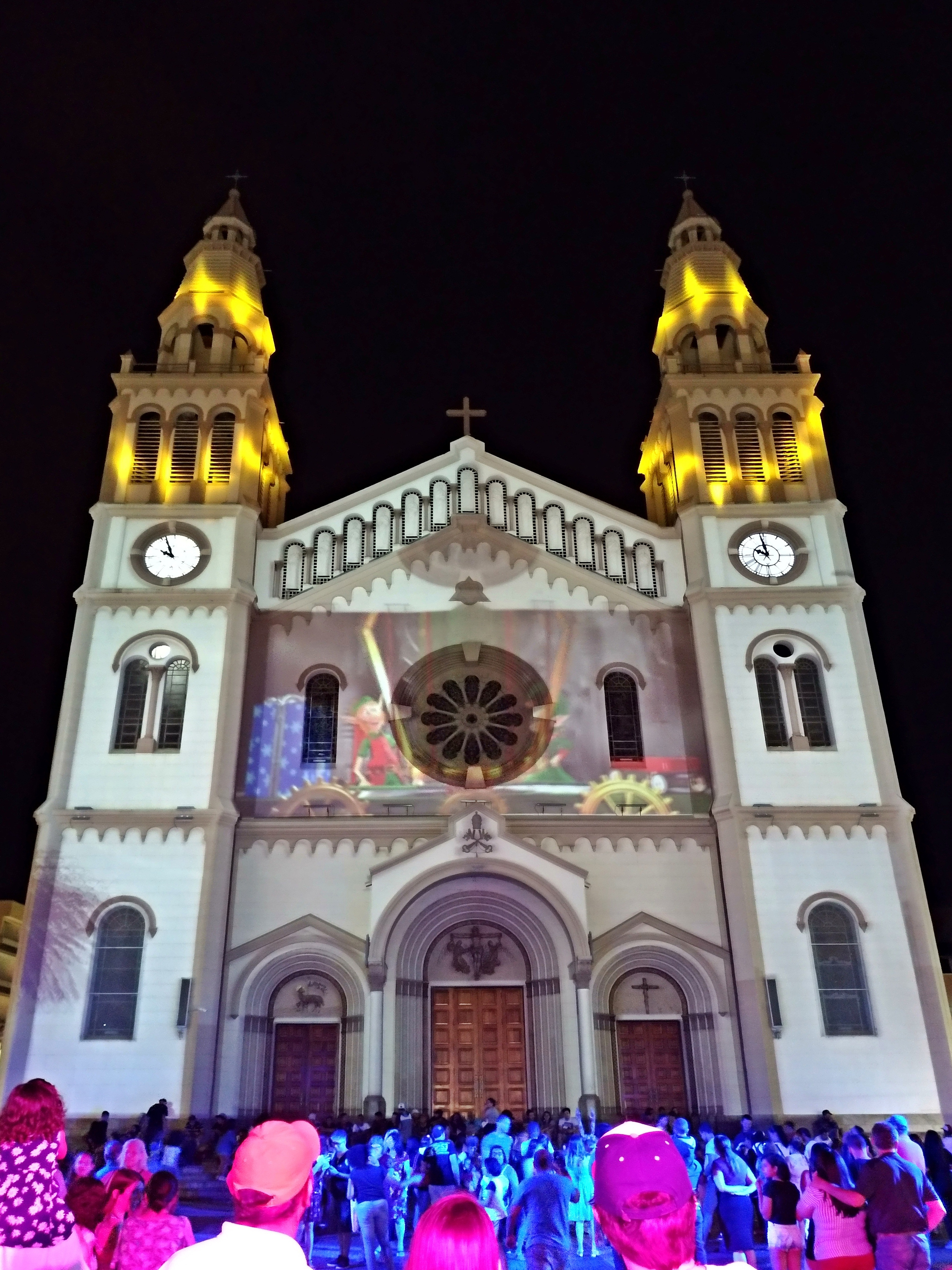 Christmas lights in the facade of the Good Jesus Metropolitan Cathedral, in Pouso Alegre, Minas Gerais, Brazil.